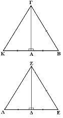 Determining congruence of right triangles SS comparison